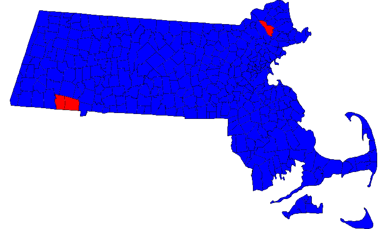 The cities and towns colored blue voted for Kennedy, red for Chase